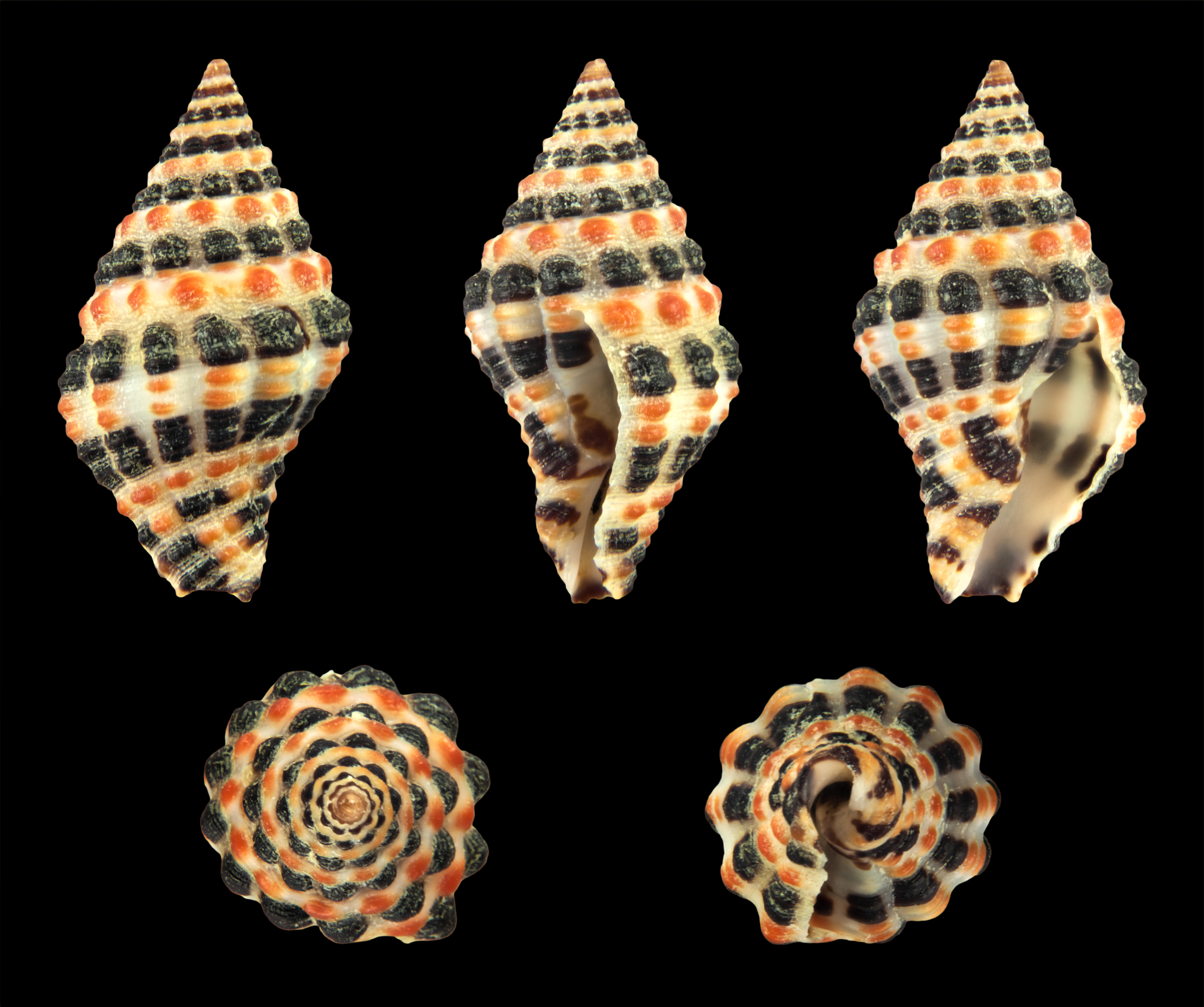 Engina alveolata (Kiener, 1836), Checkerboard Engina; Length 1.2 cm; Originating from Samar, Philippines; Shell of own collection, therefore not geocoded.